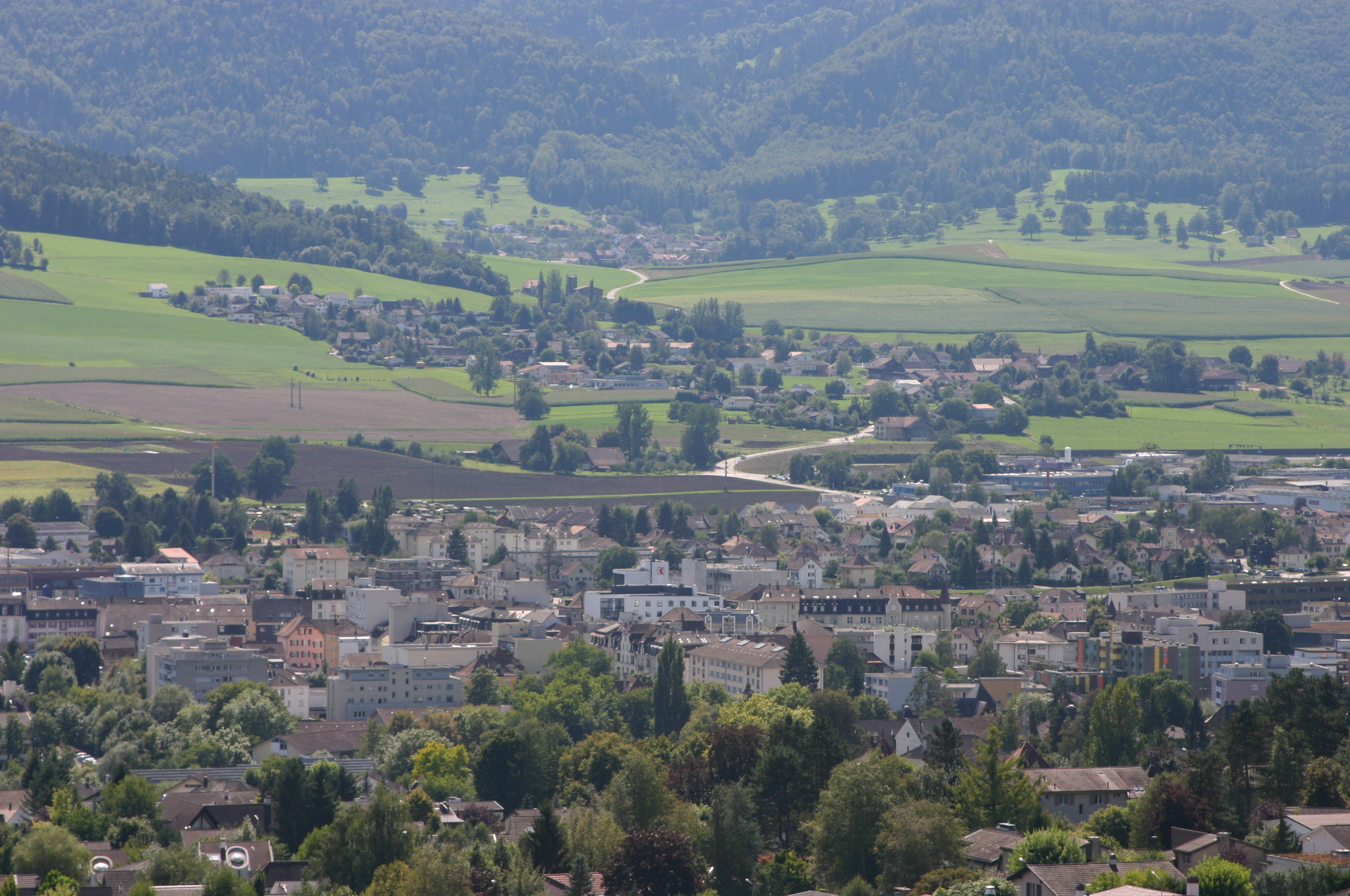 Delémont City